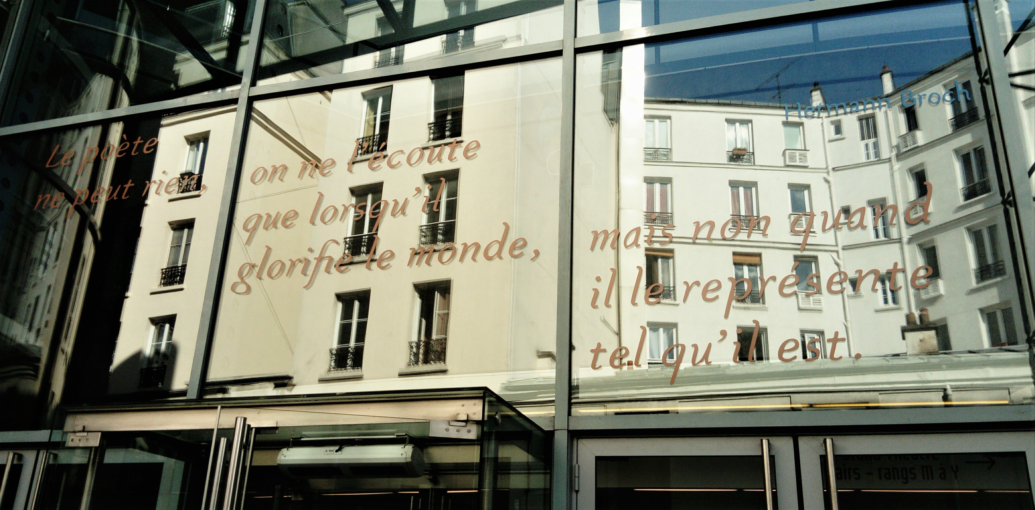 A French quotation from the Austrian playwright Hermann Broch temporarily written on the glass façade of the Théâtre national de la Colline, in Paris, in 2018. It reads: "The poet is powerless, he is listened to only when he praises the world, never when he depicts it as it is."